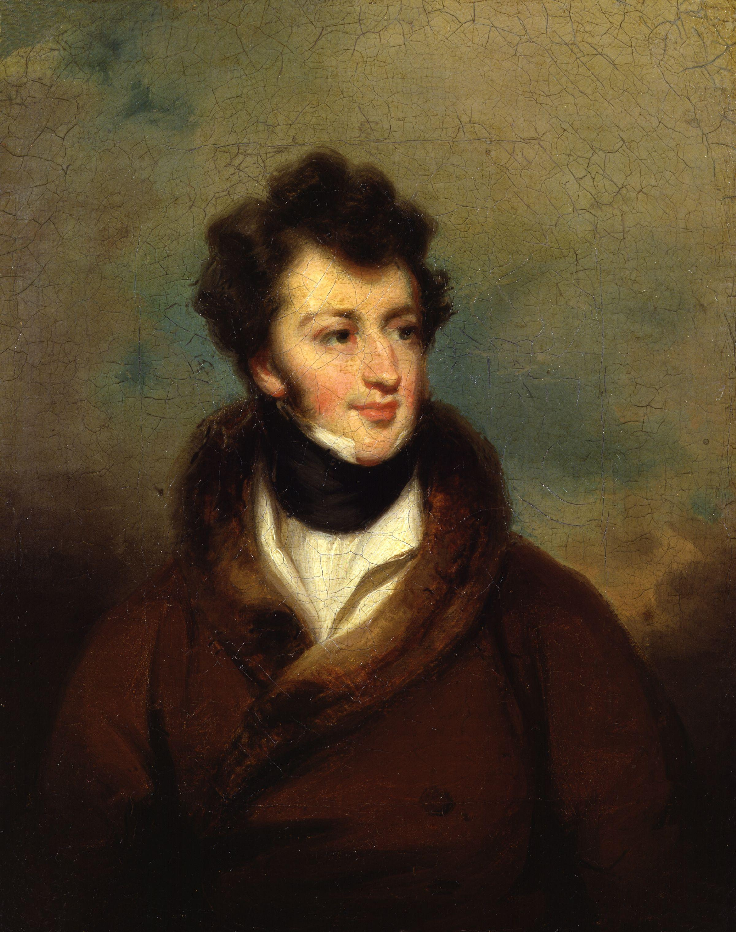 Sir Henry Rowley Bishop, by George Henry Harlow (died 1819). All images in this batch have been confirmed as author died before 1939 according to the official death date listed by the NPG.